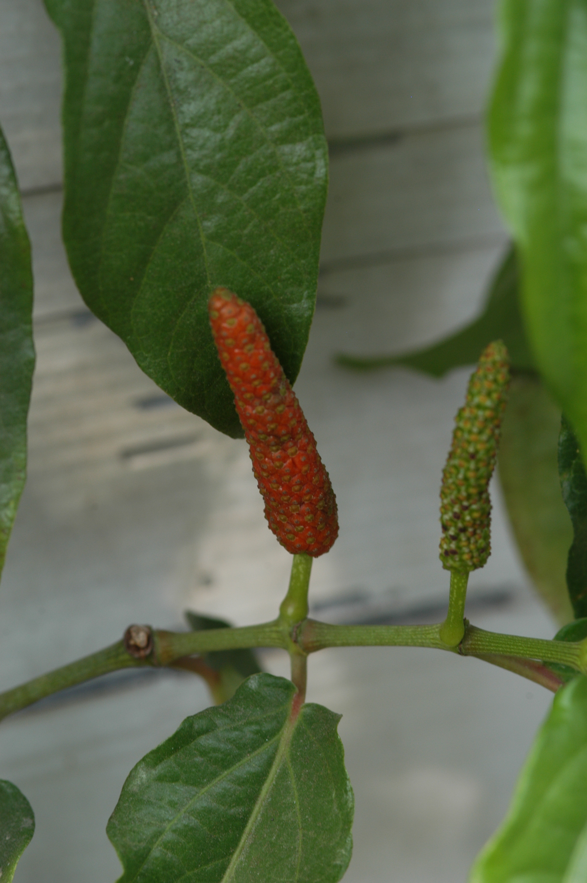 Piper retrofractum